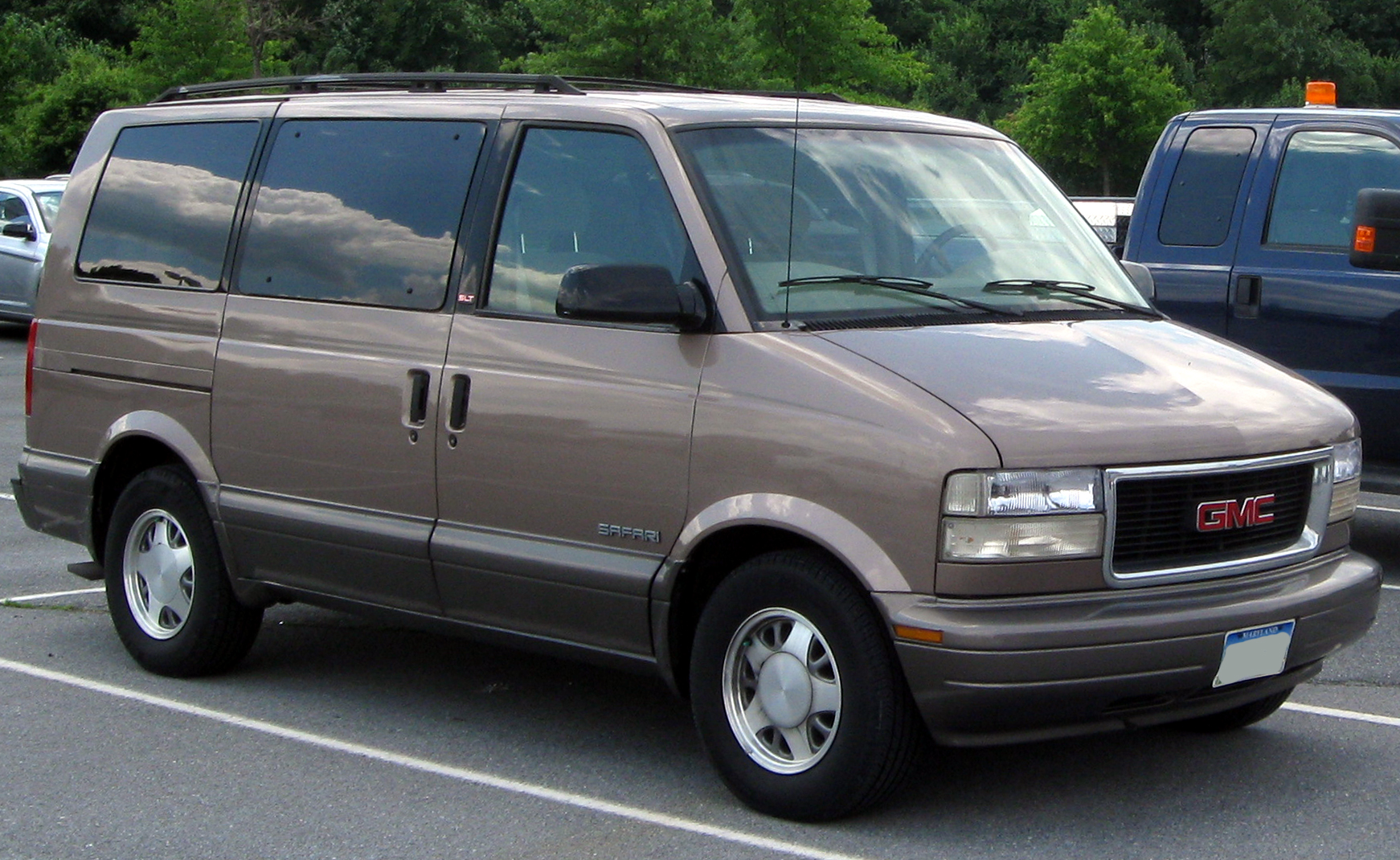 1996-2005 GMC Safari photographed in Largo, Maryland, USA.